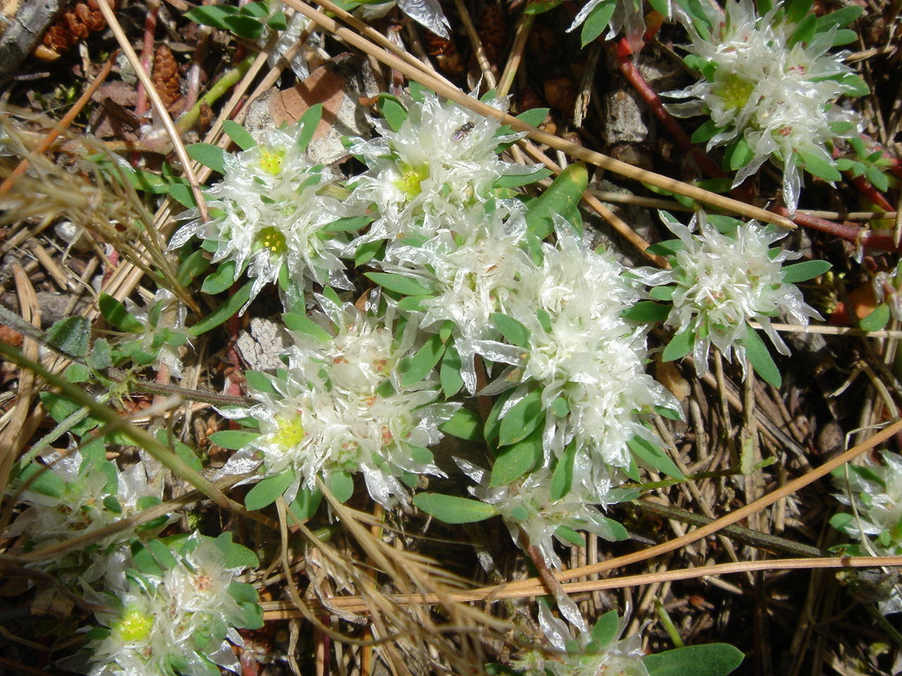 Paronychia argentea